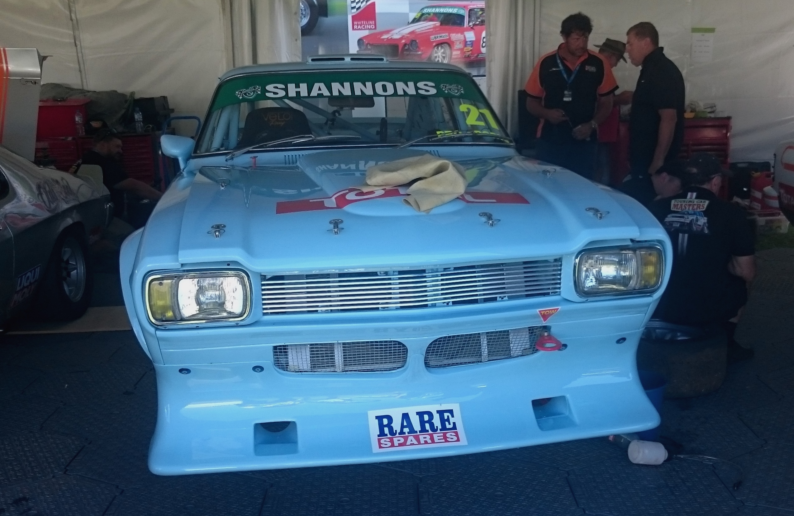 The Ford Capri of Greg Garwood at the Adelaide Parklands Circuit, Round 1, 2016 Touring Car Masters.